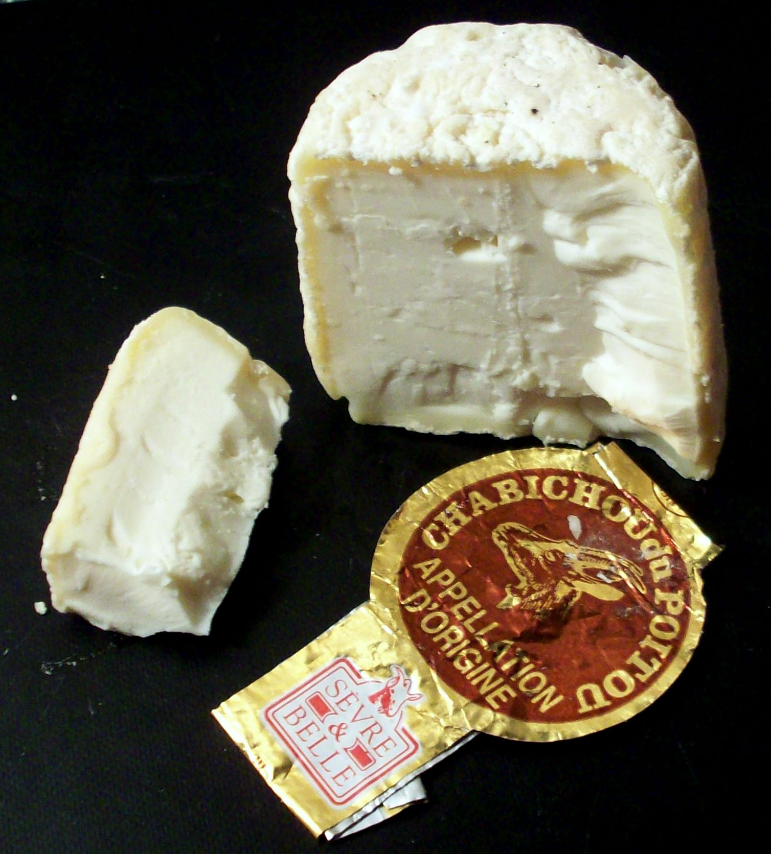 Chabichou du Poitou cheese with distinctive label.